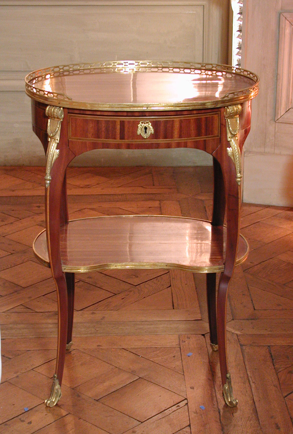 French, Paris; Writing table; Woodwork-Furniture